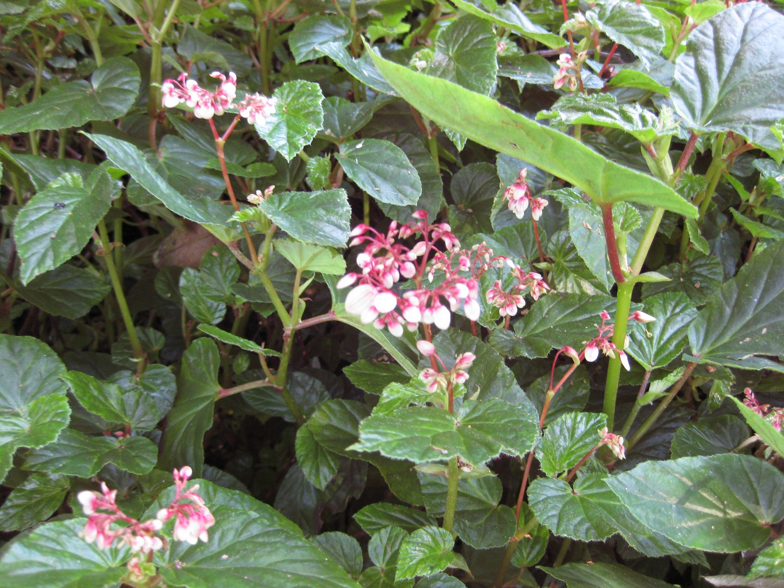 Begonia domingensis. Photographed at the Royal Botanic Gardens Sydney (Australia) in December